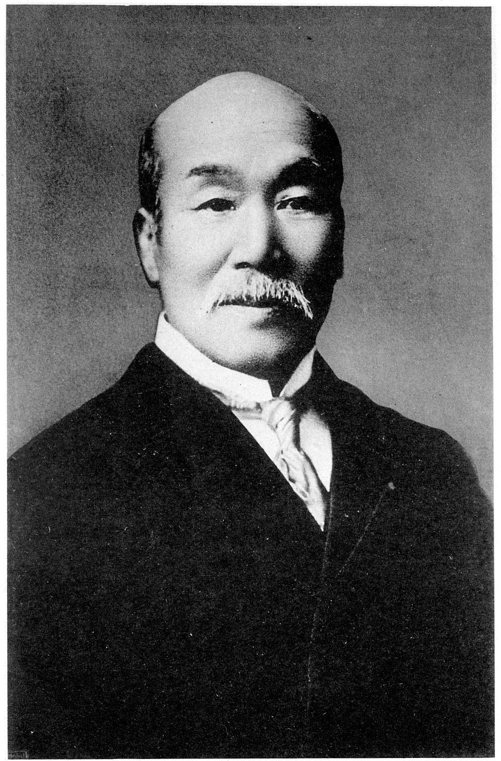 Kitagaki Kunimichi, the Governor of Kyoto Prefecture, the Governor of Hokkaido, etc.